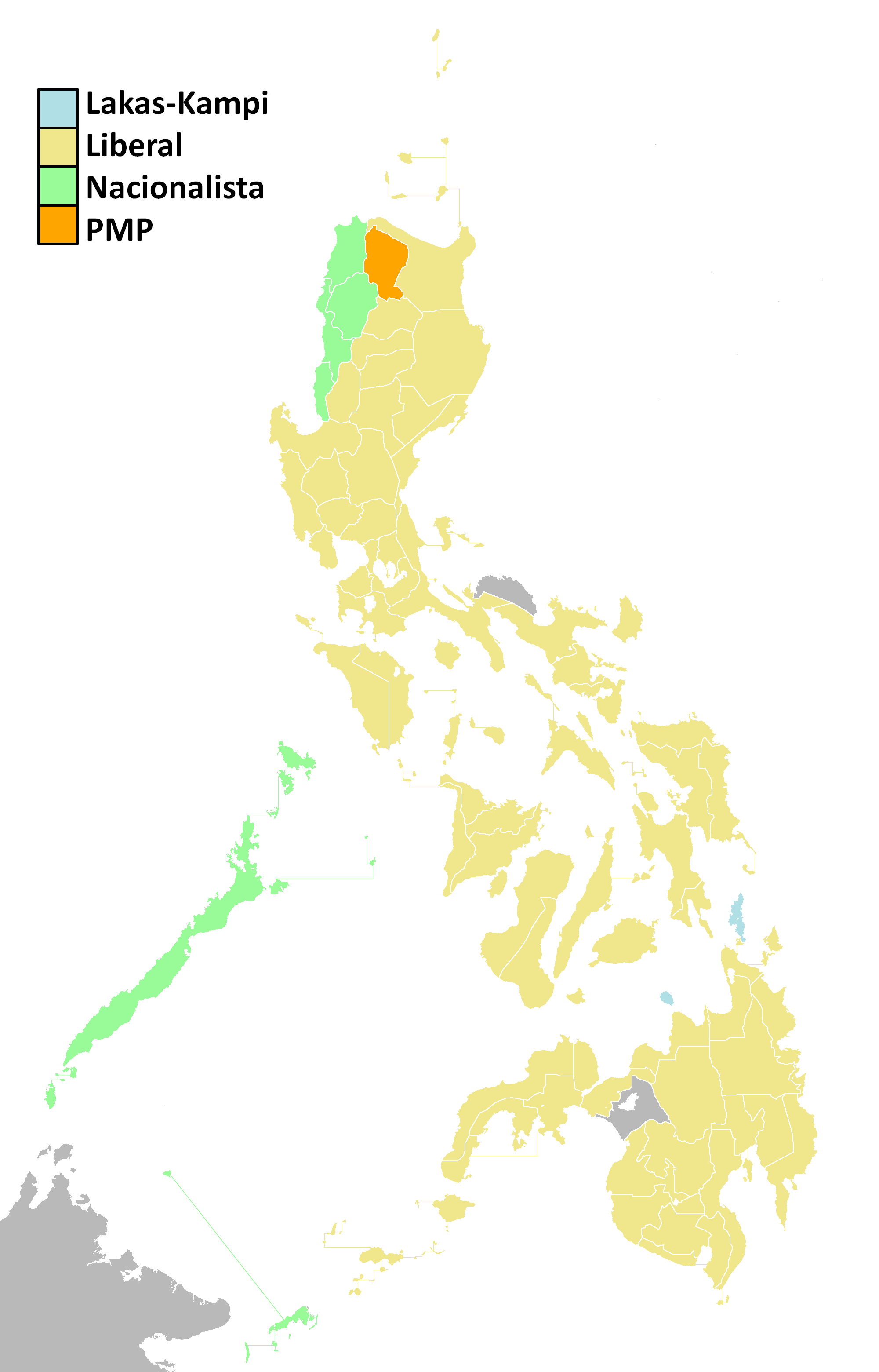 Results of the Philippine Senate election, 2010